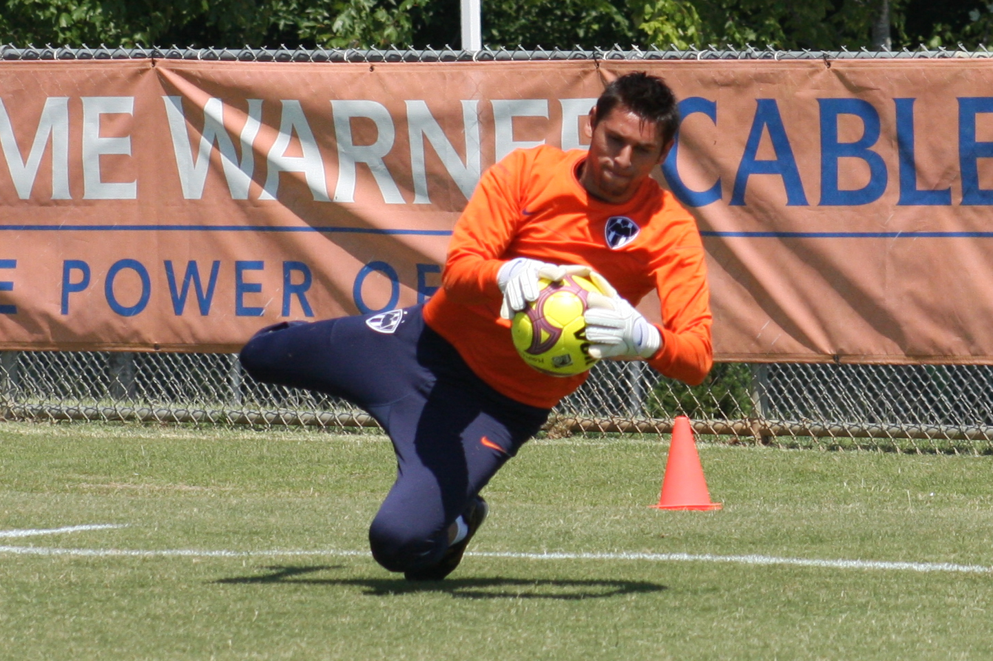 Jonathan Orozco